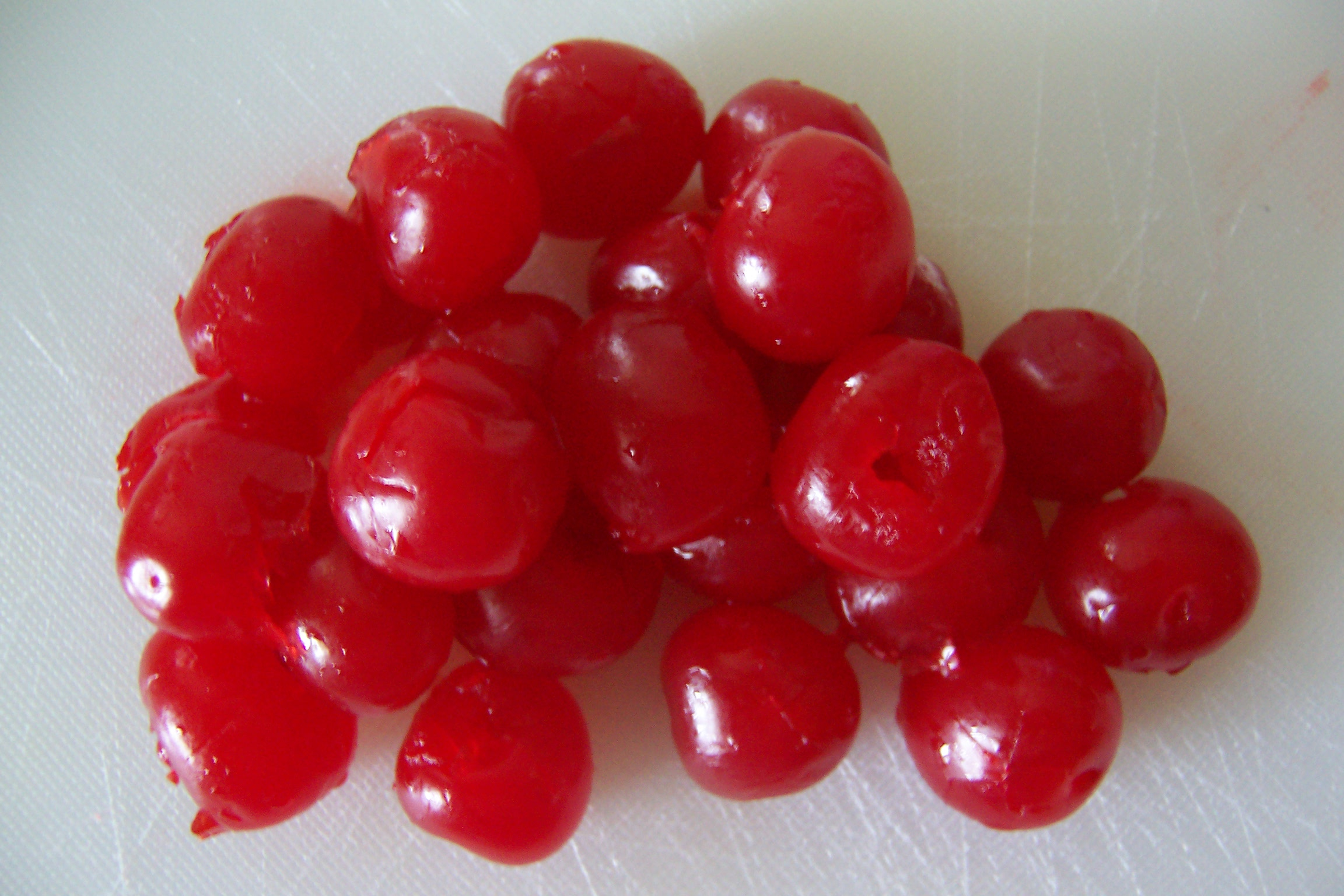 Maraschino cherries